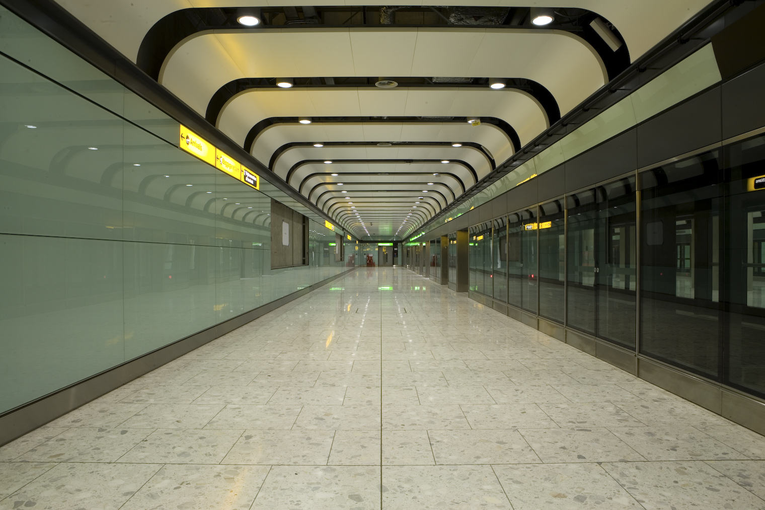 Heathrow Terminal 5 - Track Transit System